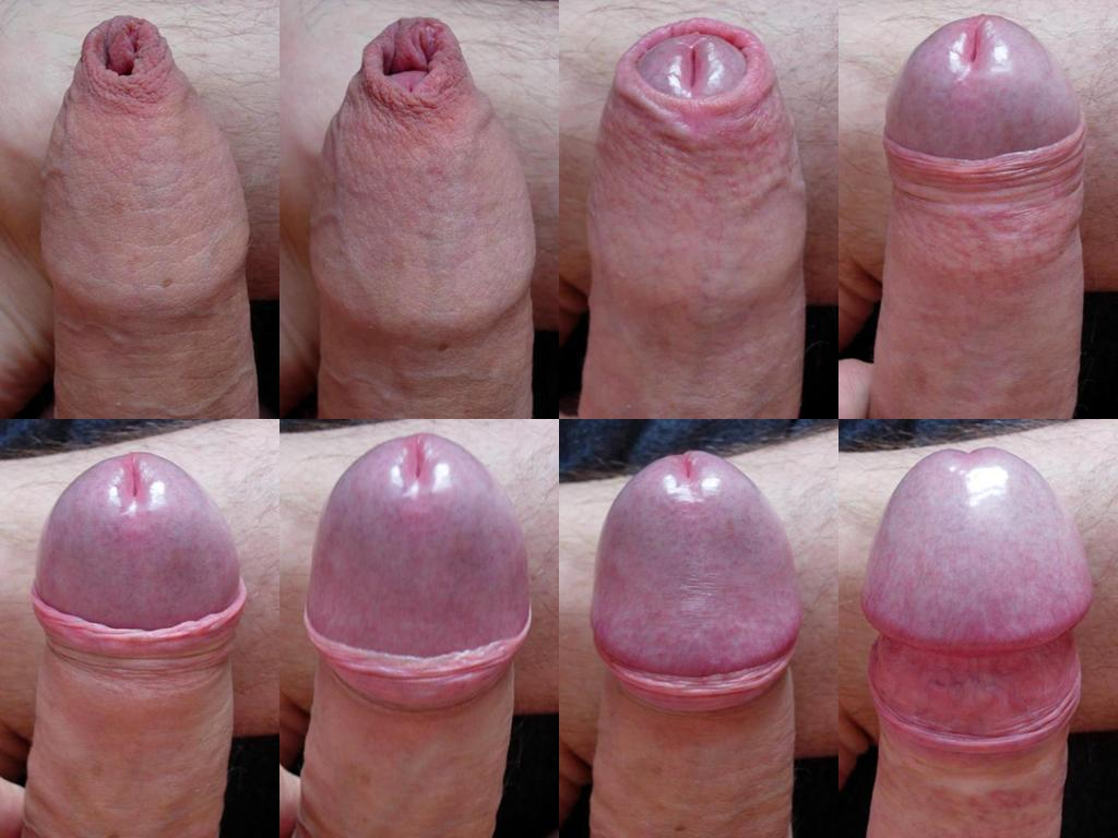 This photo series illustrates the process of retracting the foreskin of the penis, until the glans is visible. The penis shown in this series is mine and the photo was made by myself.